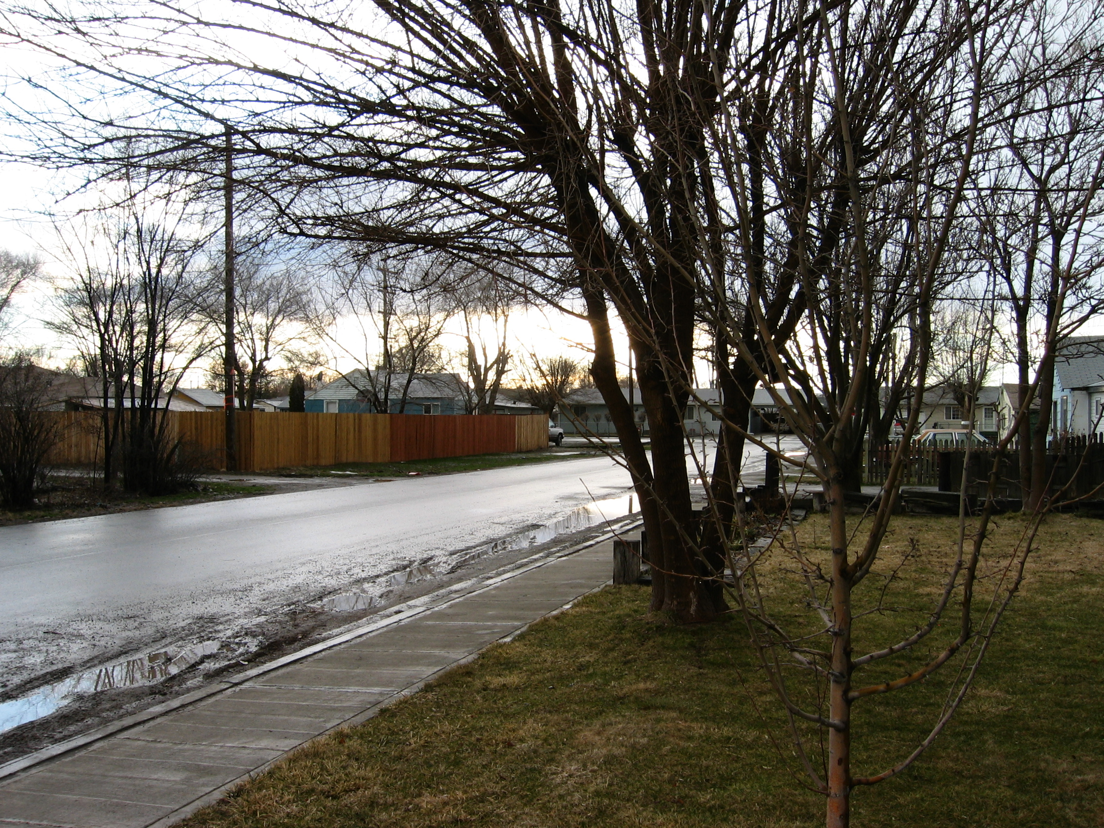 Street in Nyssa, Oregon — late afternoon sunset.